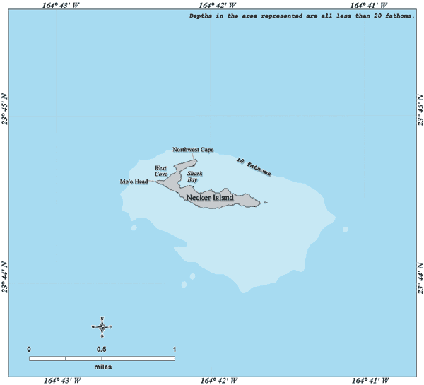 Bathymetric map of Necker Island, Northwestern Hawaiian Islands